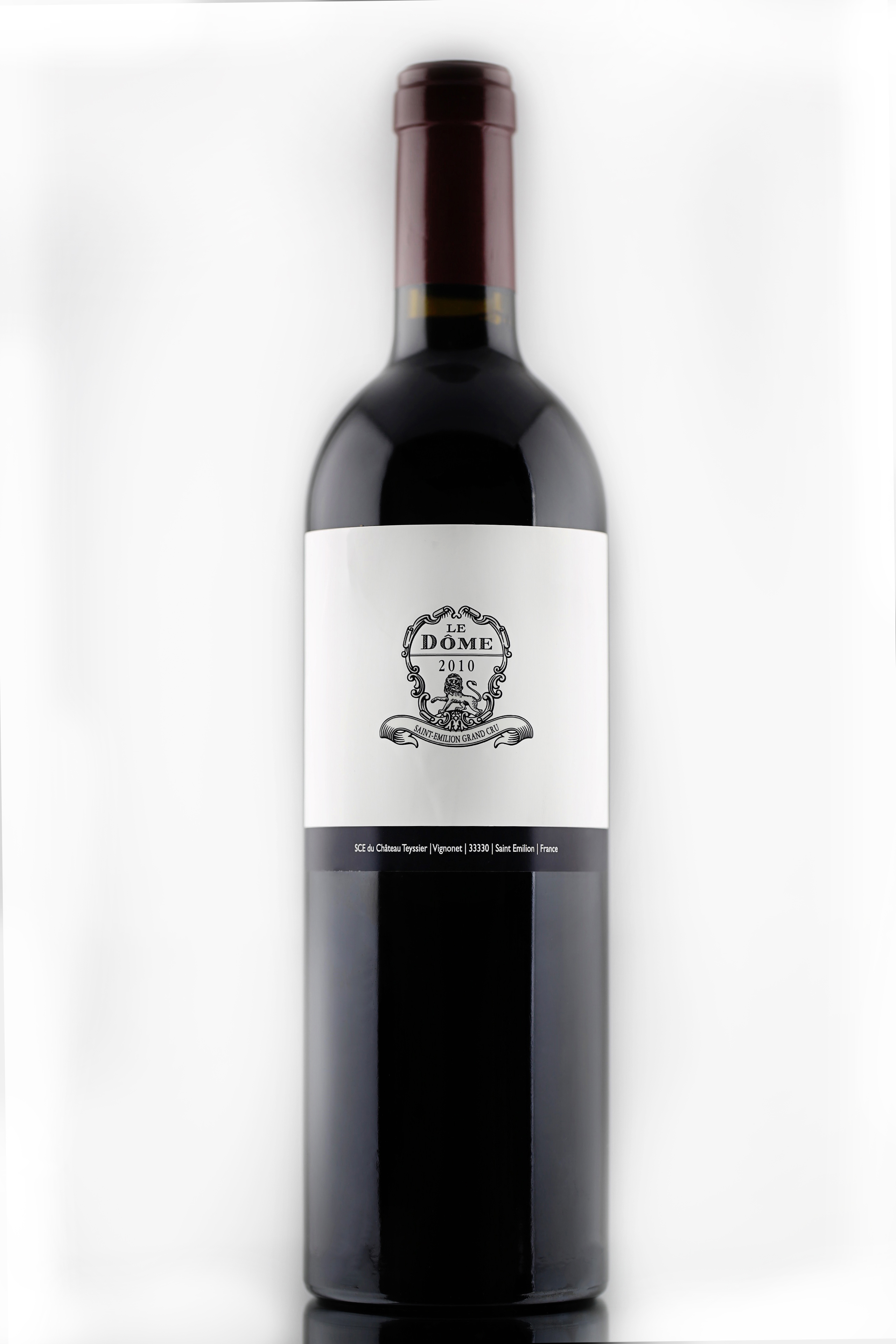 Le Dôme 2010 was given 100 points by Robert Parker